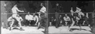 Images from the Edison Manufacturing Company/Kinetoscope Exhibition Company film of a bout between Michael Leonard and Jack Cushing (1894) for commercial distribution via the Kinetoscope